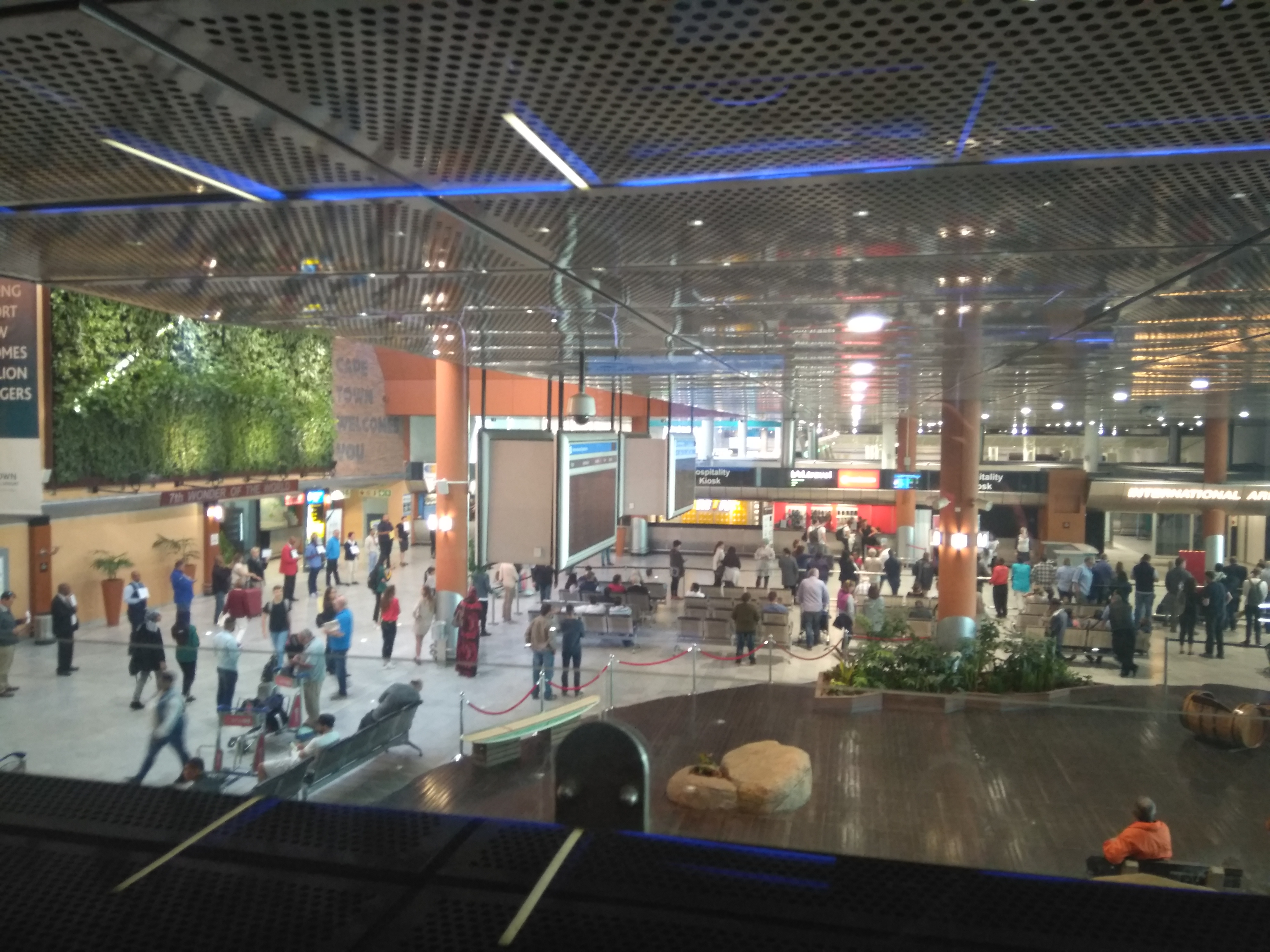 Interior of Cape Town International Airport